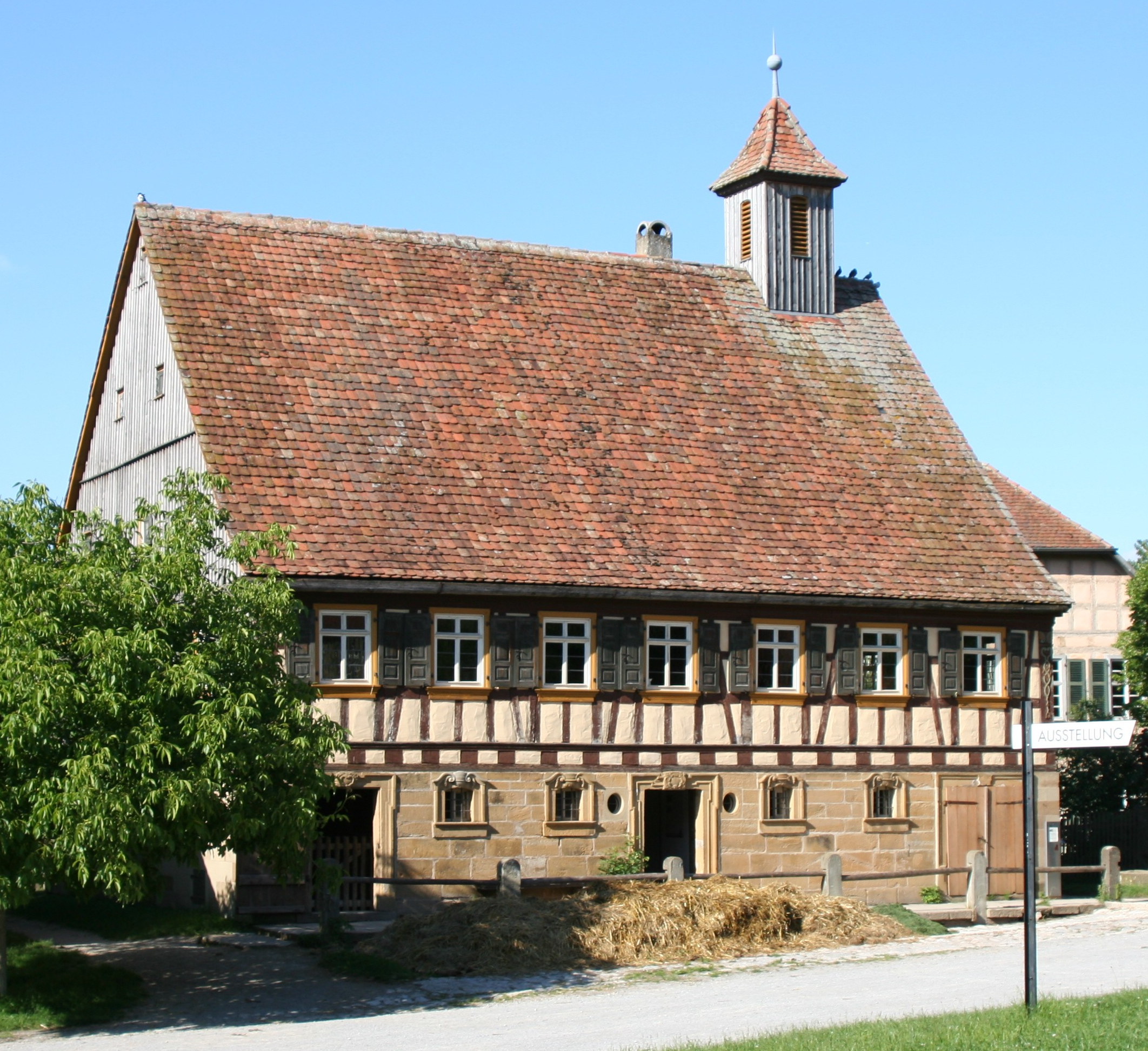 The Open Air Museum Wackershofen. House with barn from Elzhausen, municipality Braunsbach